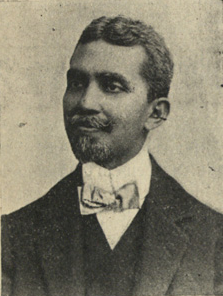 Republican member of the Portuguese 1911 Constituent Assembly.